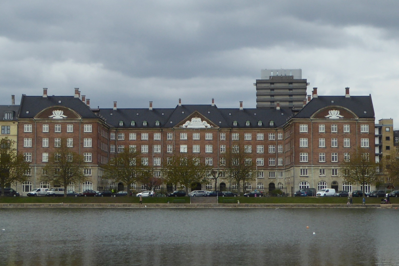 Apartment building of the foundation Kronprins Frederik og Kronprinsesse Louises Stiftelse at Sortedam Dossering in Østerbro in Copenhagen, Denmark. Today the building houses the housing cooperative called "Andelsboligforeningen Sortedam Dossering 59 A-K".